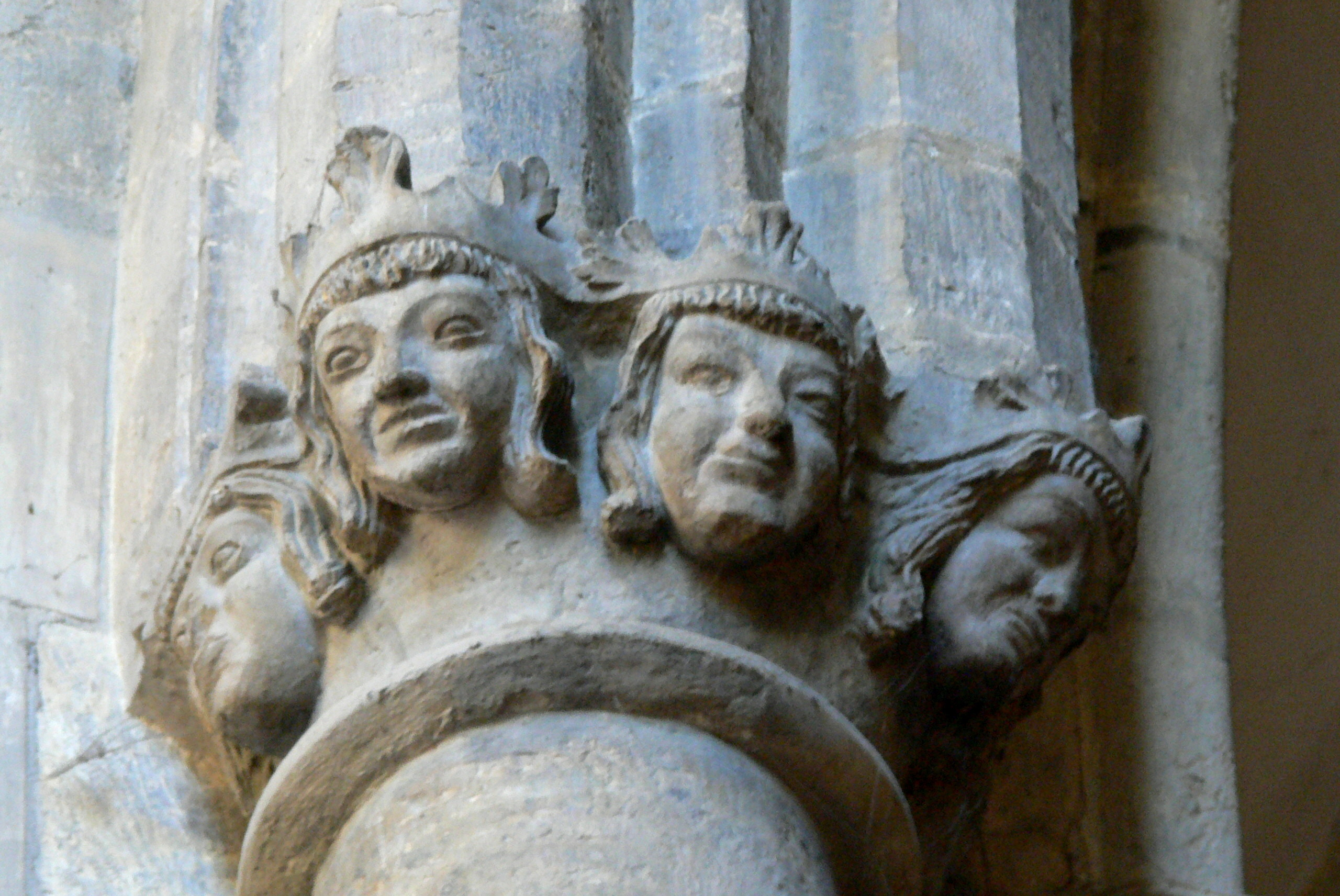 Convent of Saint Agnes of Bohemia ( Prague ). Gothic capital in the church.